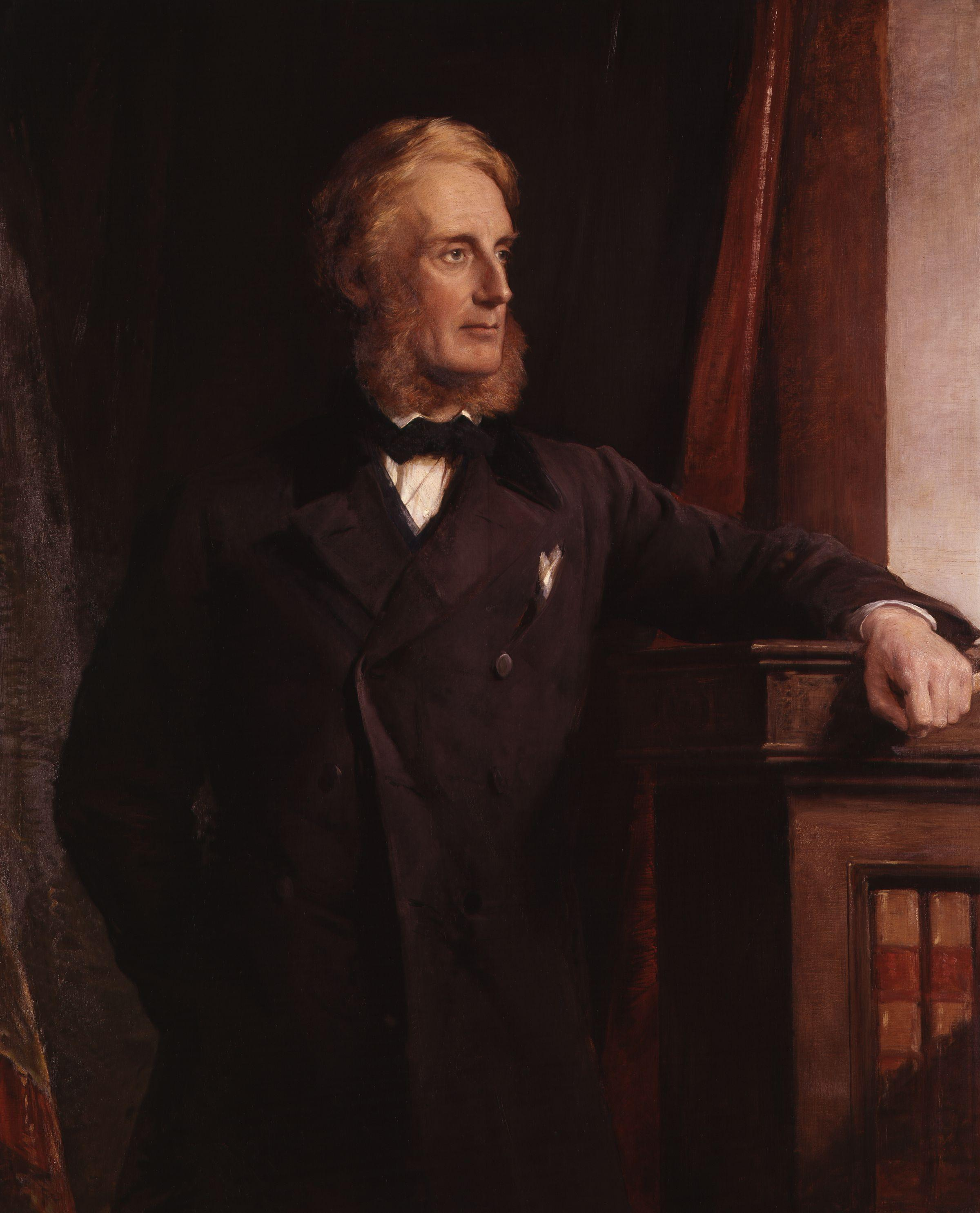 Edward Cardwell, Viscount Cardwell, by George Richmond (died 1896), given to the National Portrait Gallery, London in 1887. All images in this batch have been confirmed as author died before 1939 according to the official death date listed by the NPG.